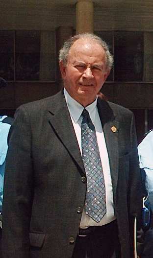 Monte Kwinter, MPP York Centre Crime Prevention Association of Toronto Nathan Phillips Square